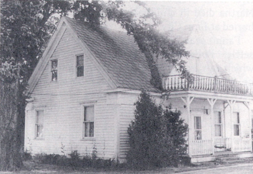 Augustus Fanno farmhouse. Historical images of Beaverton, Oregon.